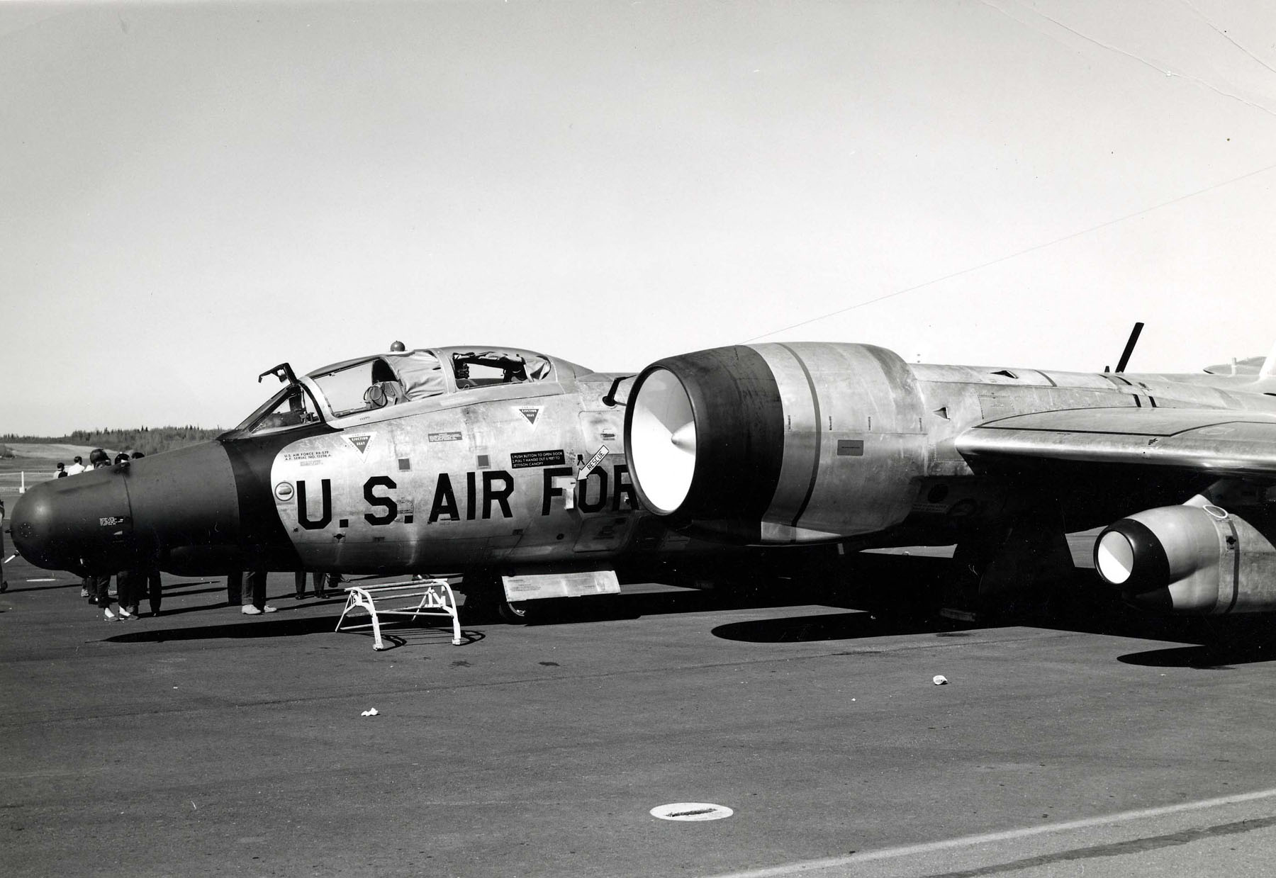 General Dynamics WB-57F Canberra side view detail (SN 63-13294)